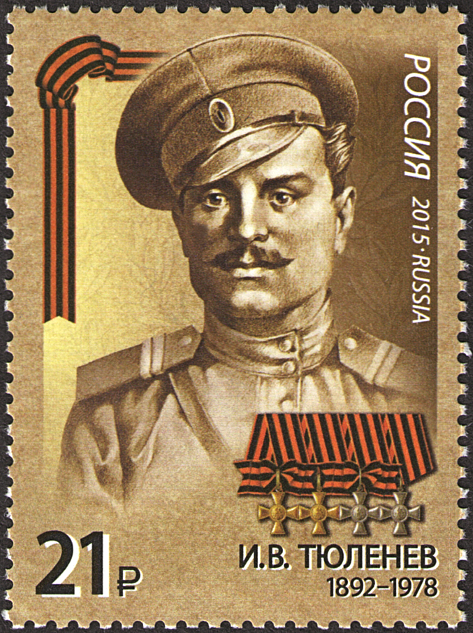 The History of World War I (the ongoing series, issue II). Heroes of World War I. Ivan Tyulenev (1892—1978). The stamp of Russia, 21.00 ₽, 03 August 2015, PTC Marka Catalogue No. 1979, Michel No. 2192. Coated paper. Offset printing. Perforation: comb 11½:12. Size of the stamp: 37×50 mm. Print run: 385,000.